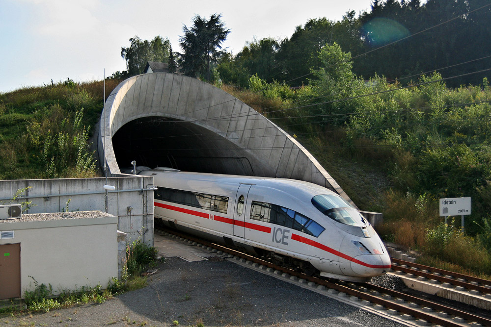 An ICE 3 leaves the north portal of the Idstein Tunnel